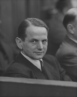 Cropped image of Ohlendorf, principal German defendant of the Einsatzgruppen "commandos" trial in Nurnberg. "The Einsatzgruppen units," the prosecution stated, "were special task forces whose primary purpose was to accompany the German army into the Eastern territories and exterminate Jews, Gypsies, Soviet officials and other civilians regarded as 'racially and politically undesirable'". Ohlendorf, as commander of the Einsatzgruppen D, which operated mainly in Southern Russia. He is charged with committing war crimes and crimes against humanity, and membership in the SS and SD, adjudged criminal organizations by the International Military Tribunal. [Original Descriptive Caption] Telford Taylor Papers, Arthur W. Diamond Law Library, Columbia University Law School, New York, N.Y. : TTP-CLS: 15-2-2-113.